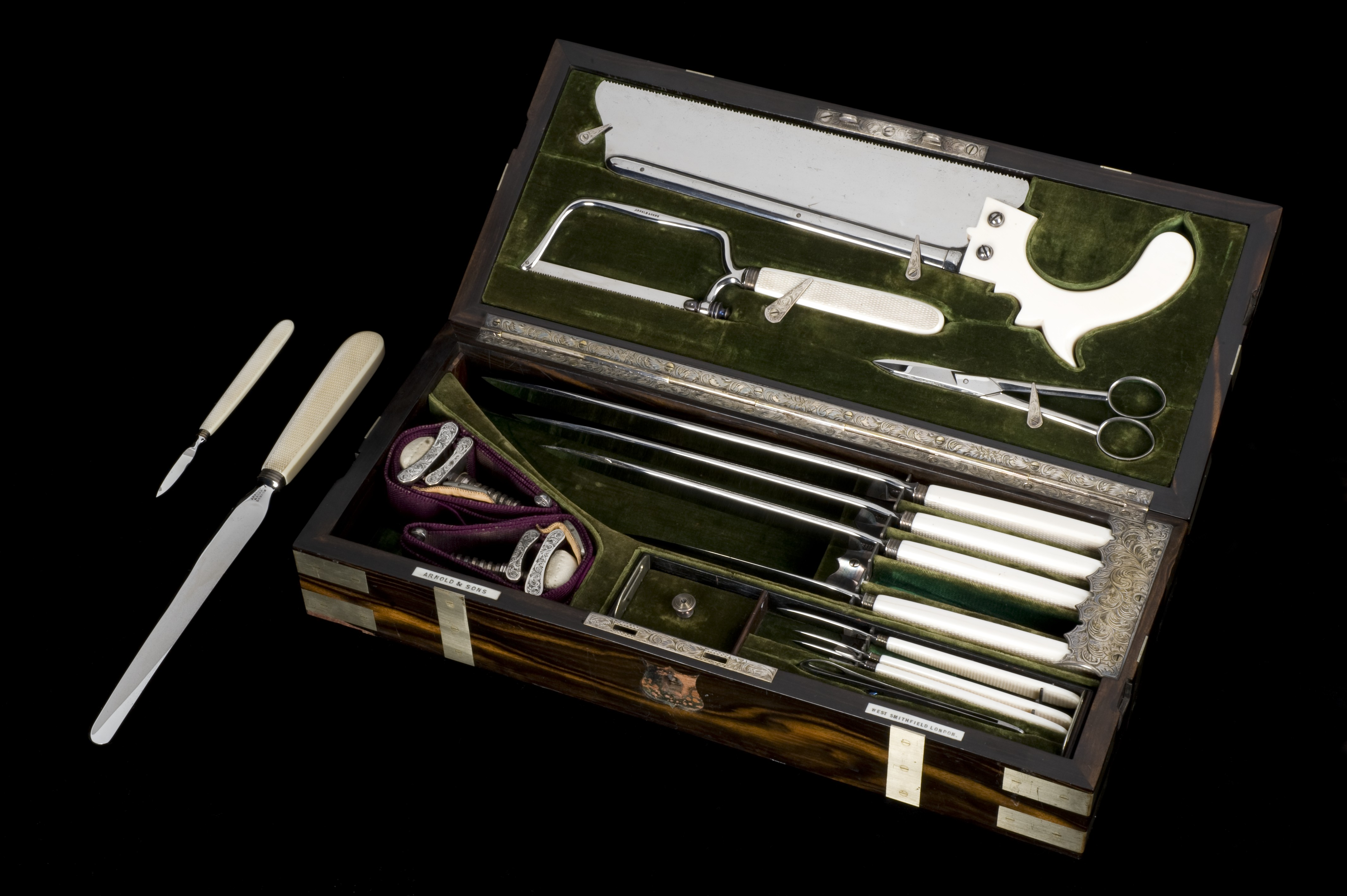 This surgical instrument set was designed to be used exclusively for amputations. The case is decorated with a mahogany veneer and brass inlay. The instruments are made from steel engraved with a swirling design and have ivory handles, which are textured for improved grip. The instruments included are scalpels, Lüer artery forceps, amputation knives and saws, bone forceps, dressing scissors and Petit screw-type tourniquets. Even the metal screws of the tourniquets are engraved with a pattern. This surgical instrument set won a gold medal for its makers, Arnold & Sons, at the London Exhibition in 1871 and was probably made to demonstrate their skill and craftsmanship. maker: Arnold and Sons Place made: London, Greater London, England, United Kingdom Wellcome Images Keywords: Tourniquets; Amputation; artery forceps; bone forceps; surgical instrument set; tourniquet; scalpel